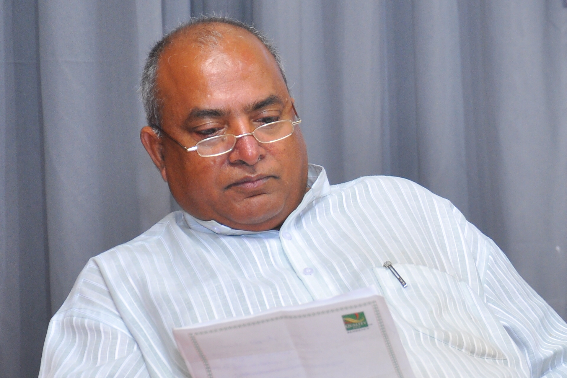 mannam venkata rayudu, founder of manasu foundation, Bengaluru